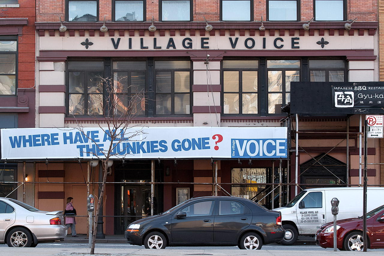 The Village Voice head office at 36 Cooper Square in New York City